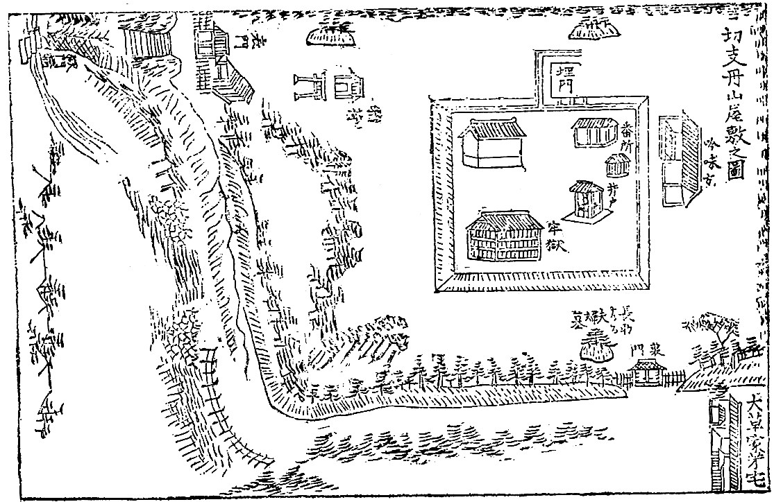 Kirishitan Yashiki